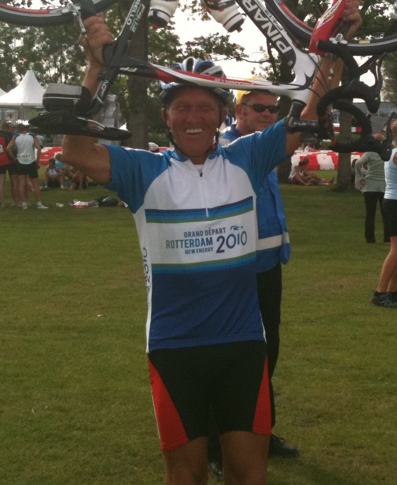 Jos van der Vleuten, former Dutch pro bicycle racer